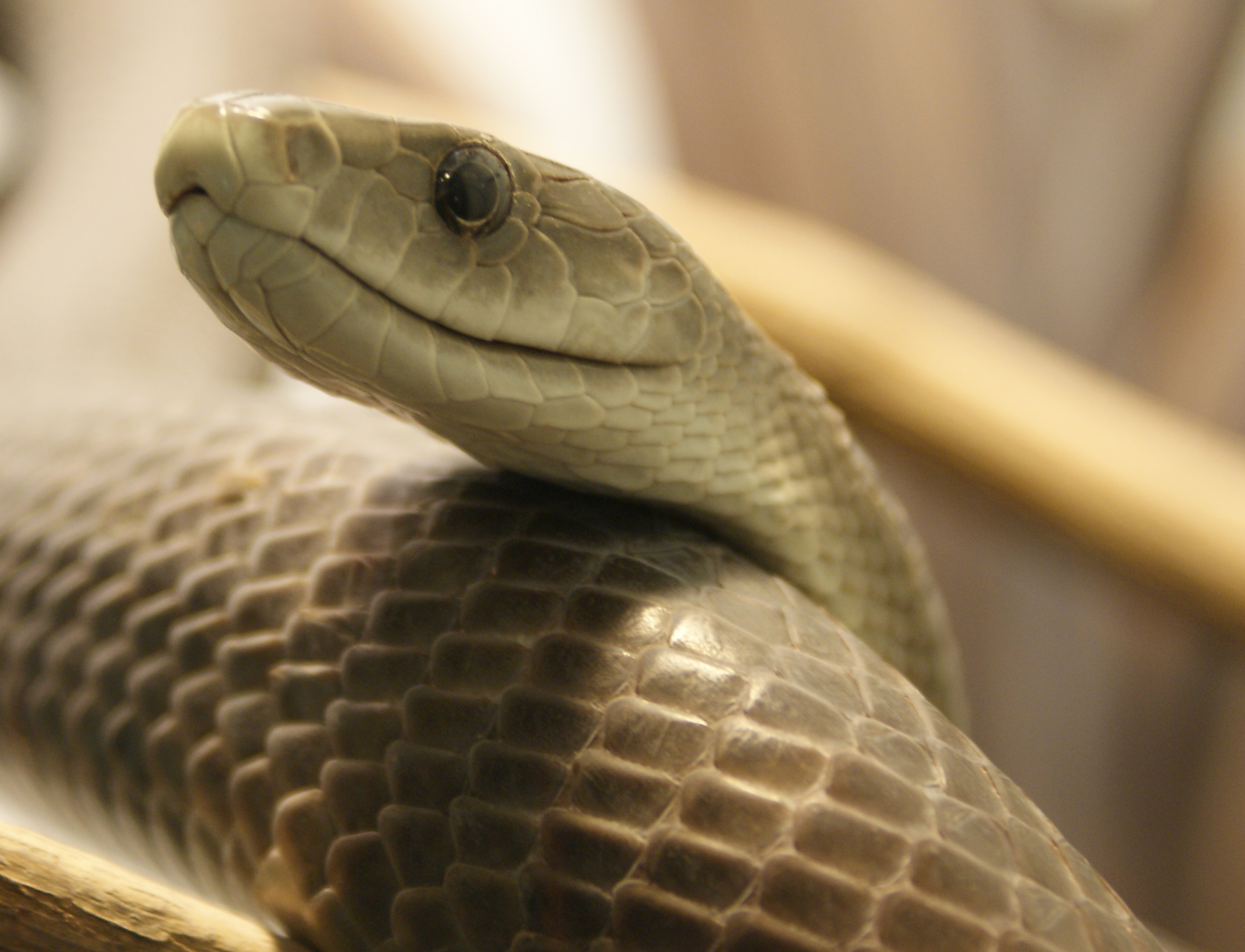 Black mamba (Dendroaspis polylepis)